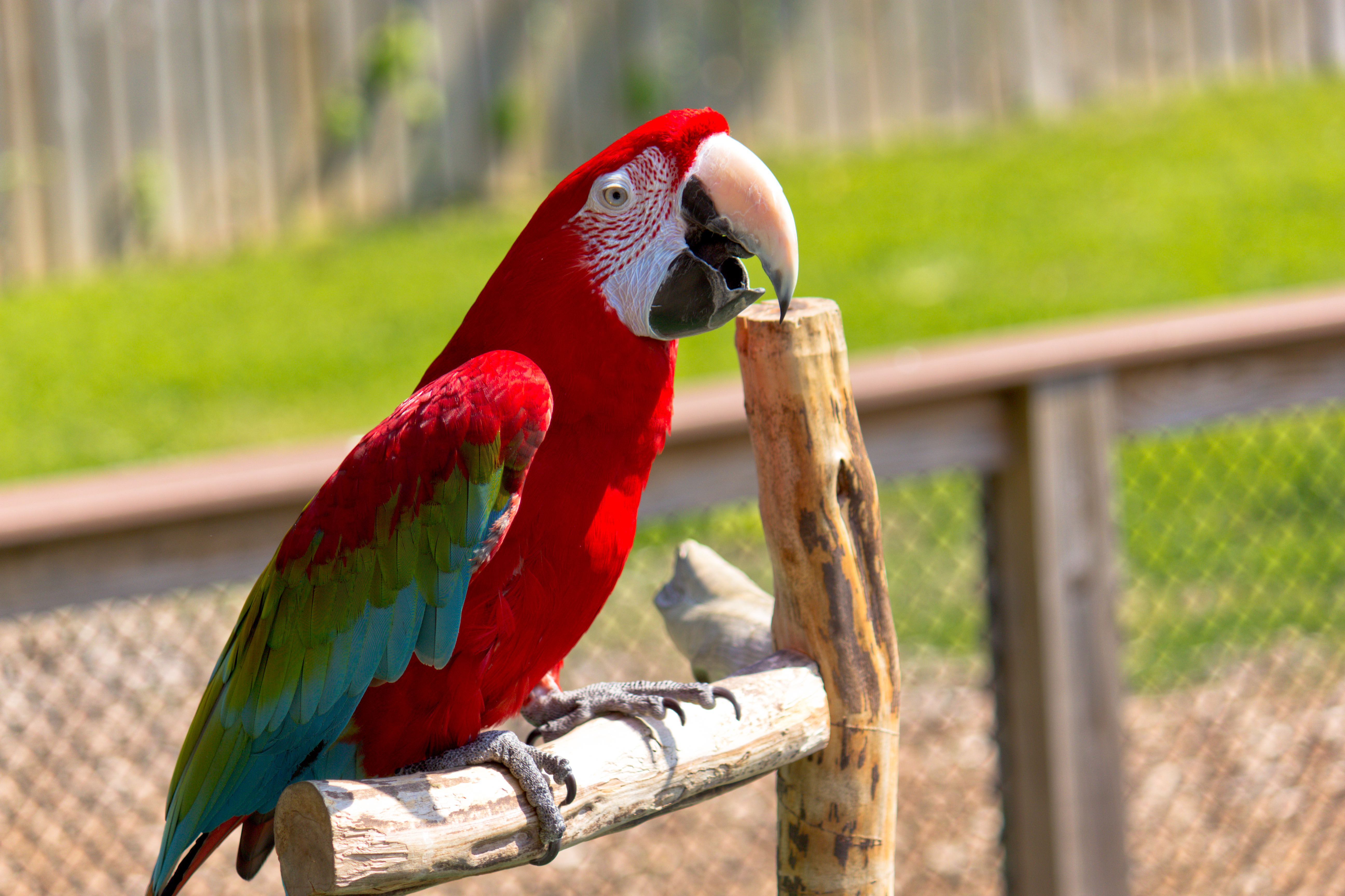 A Red-and-green Macaw (also known as the Green-winged Macaw) at Maryland Zoo, Baltimore, Maryland, USA.